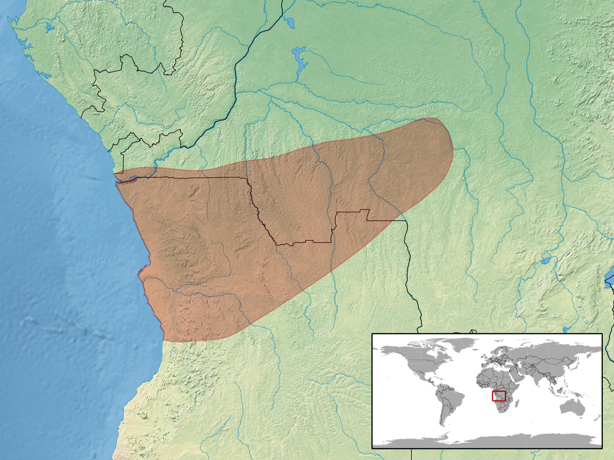 geographic distribution of Panaspis cabindae